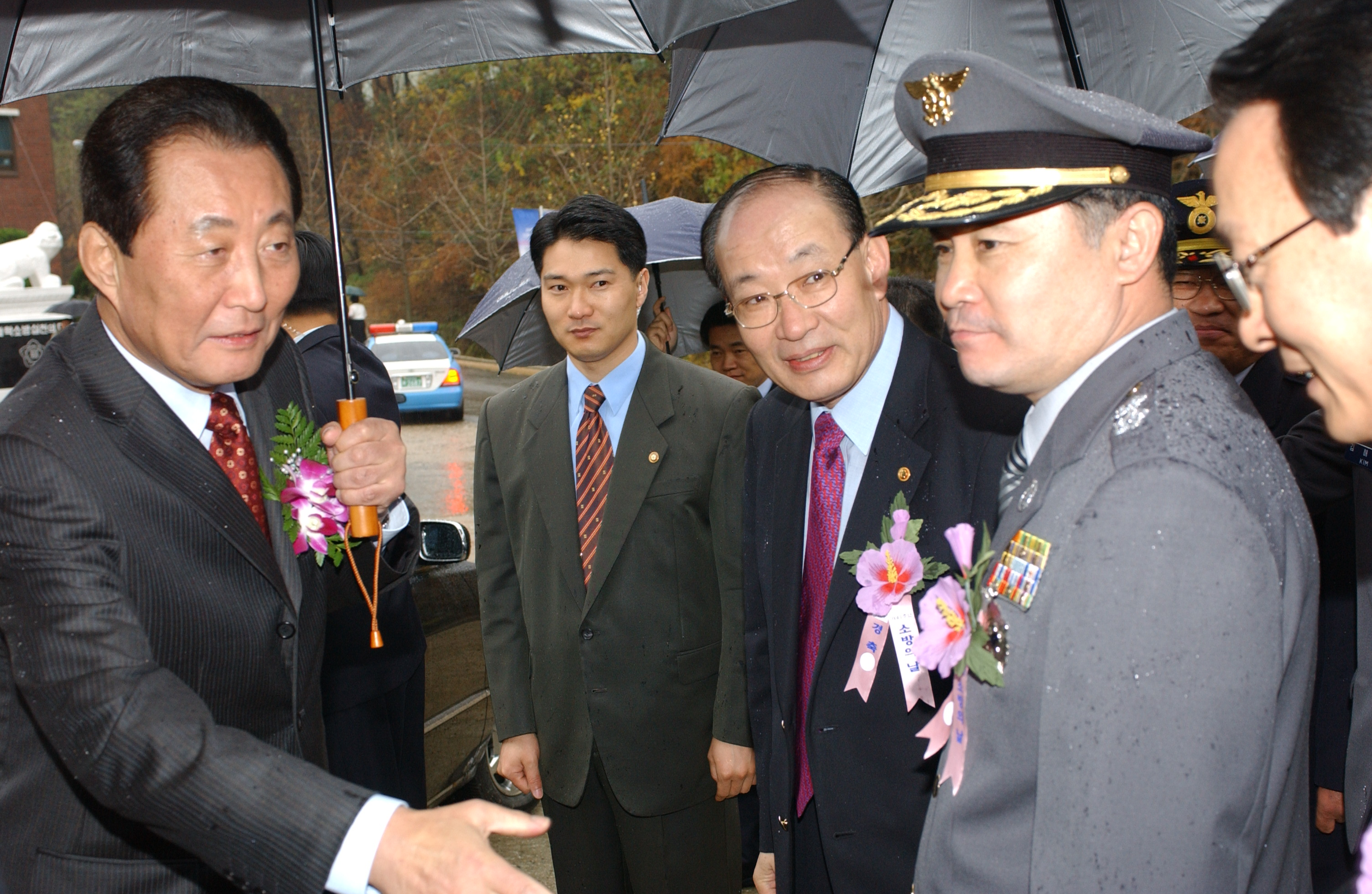 서울특별시 소방재난본부 소장 사진. photos of Seoul Metropolitan Fire&Disaster Headquarters. 이 파일은 크리에이티브 커먼즈 저작자표시-동일조건변경허락 4.0 국제 라이선스로 배포됩니다. 단 누구인지 구별 가능한 특정 인물이 사진에 포함되어 있을 경우 사용 전에 서울특별시 소방재난본부 및 해당 인물의 승인을 받으셔야합니다. 감사합니다.